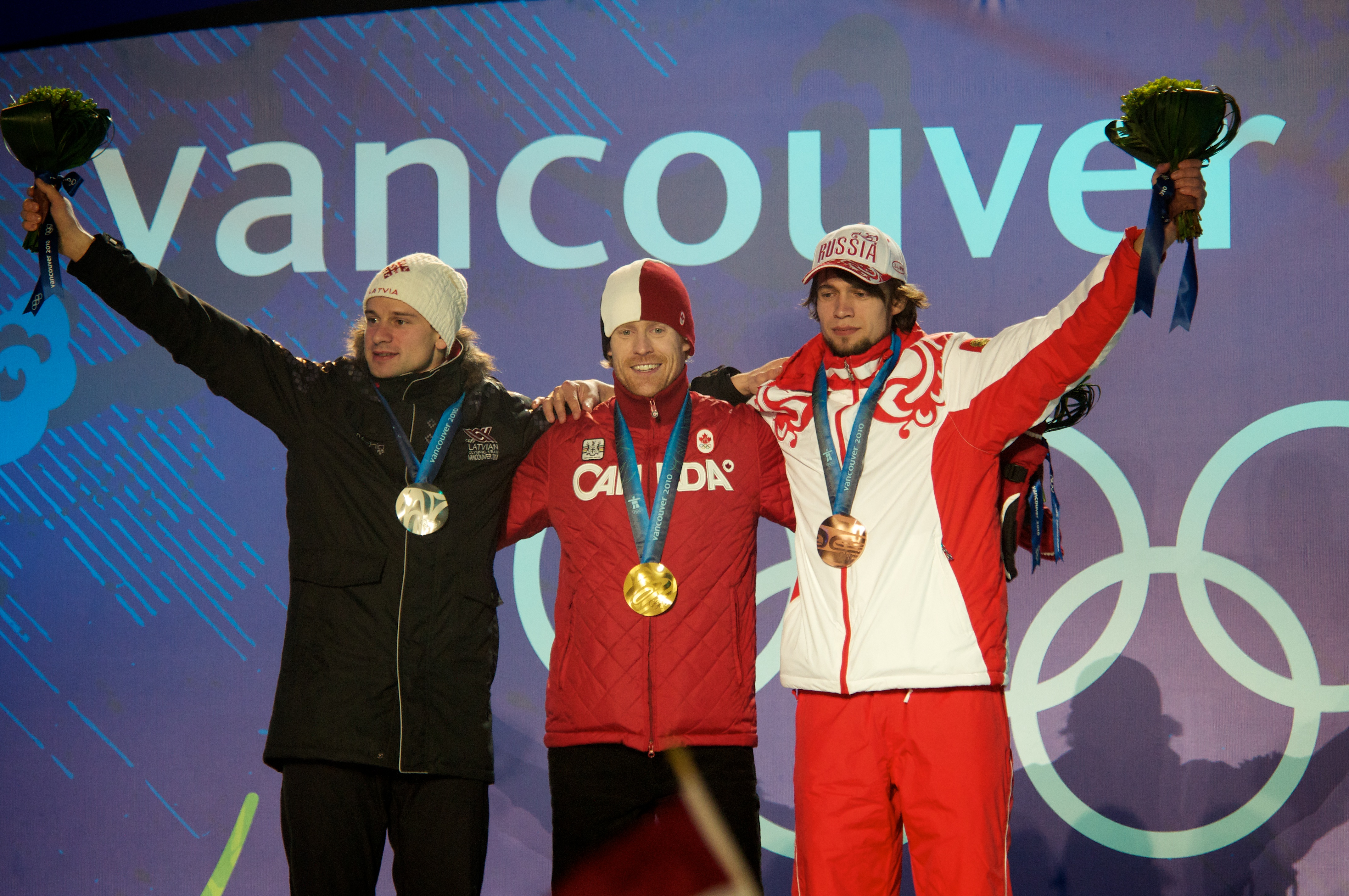 Skeleton at the 2010 Winter Olympics – Men's. The Medal Ceremony at Whistler on Day 9 of the Vancouver 2010 Winter Olympics. See also: File:Martins Dukurs 2010 Vancouver.jpg